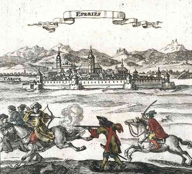 Prešov in 1686, Birckenstein: Erzherzogliche Handgriffe